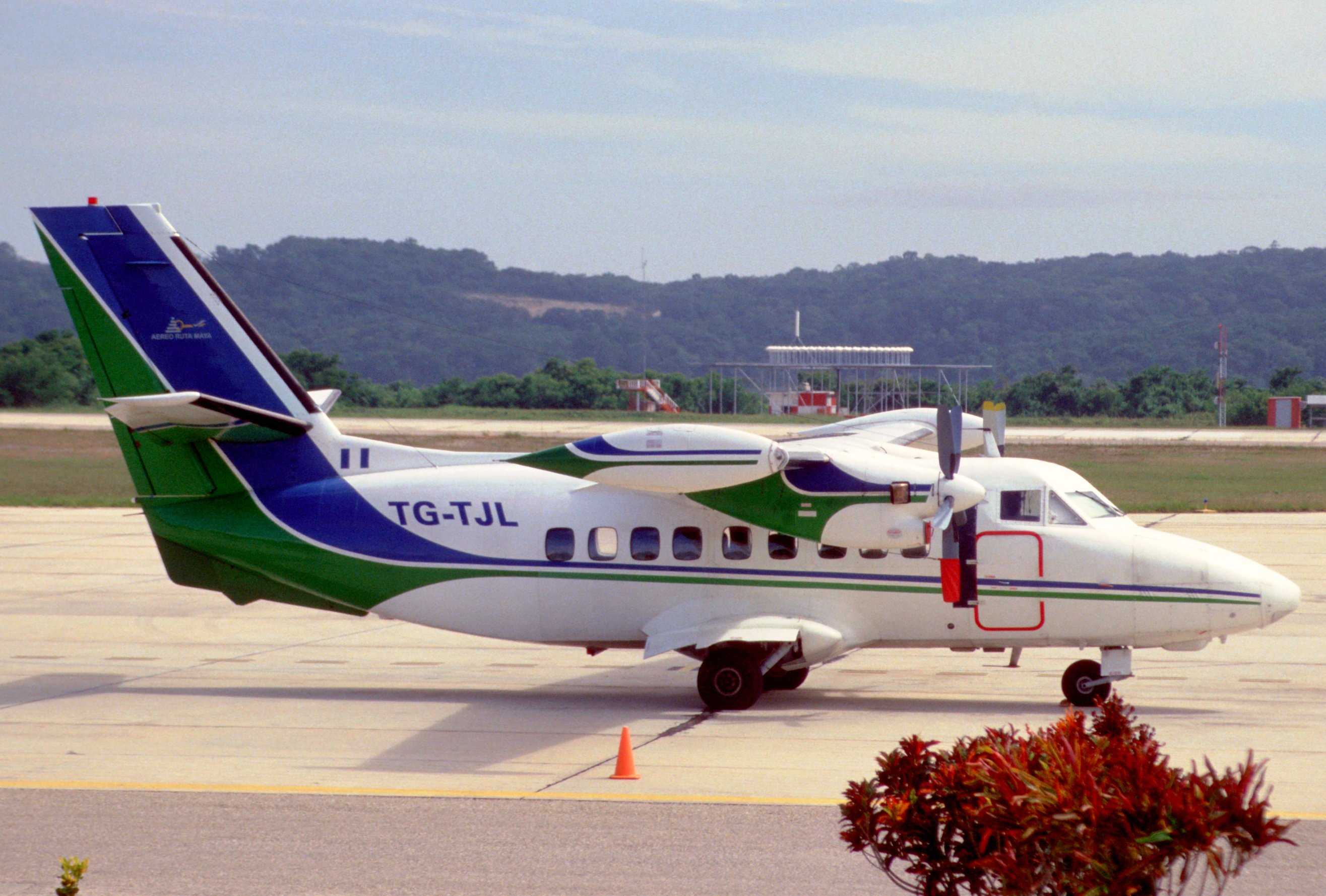 My ride on Guatemala City (GUA) to Flores (FRS) that day, my first and only LET-flight so far.